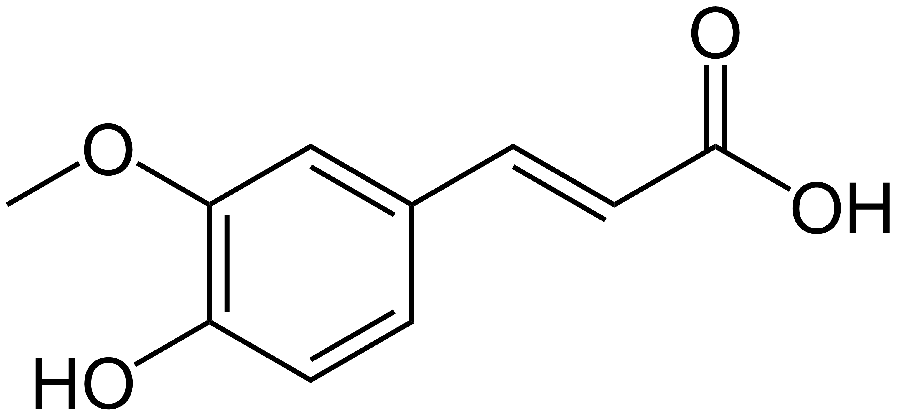 Chemical structure of Ferulic acid